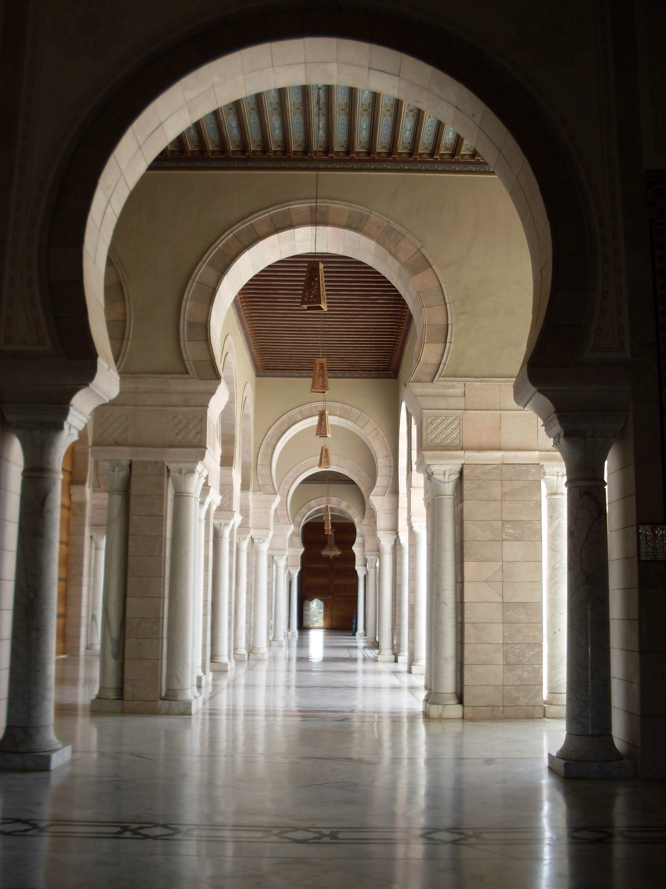 Horseshoe arched arcade — El Abidine Mosque, Tunisia.